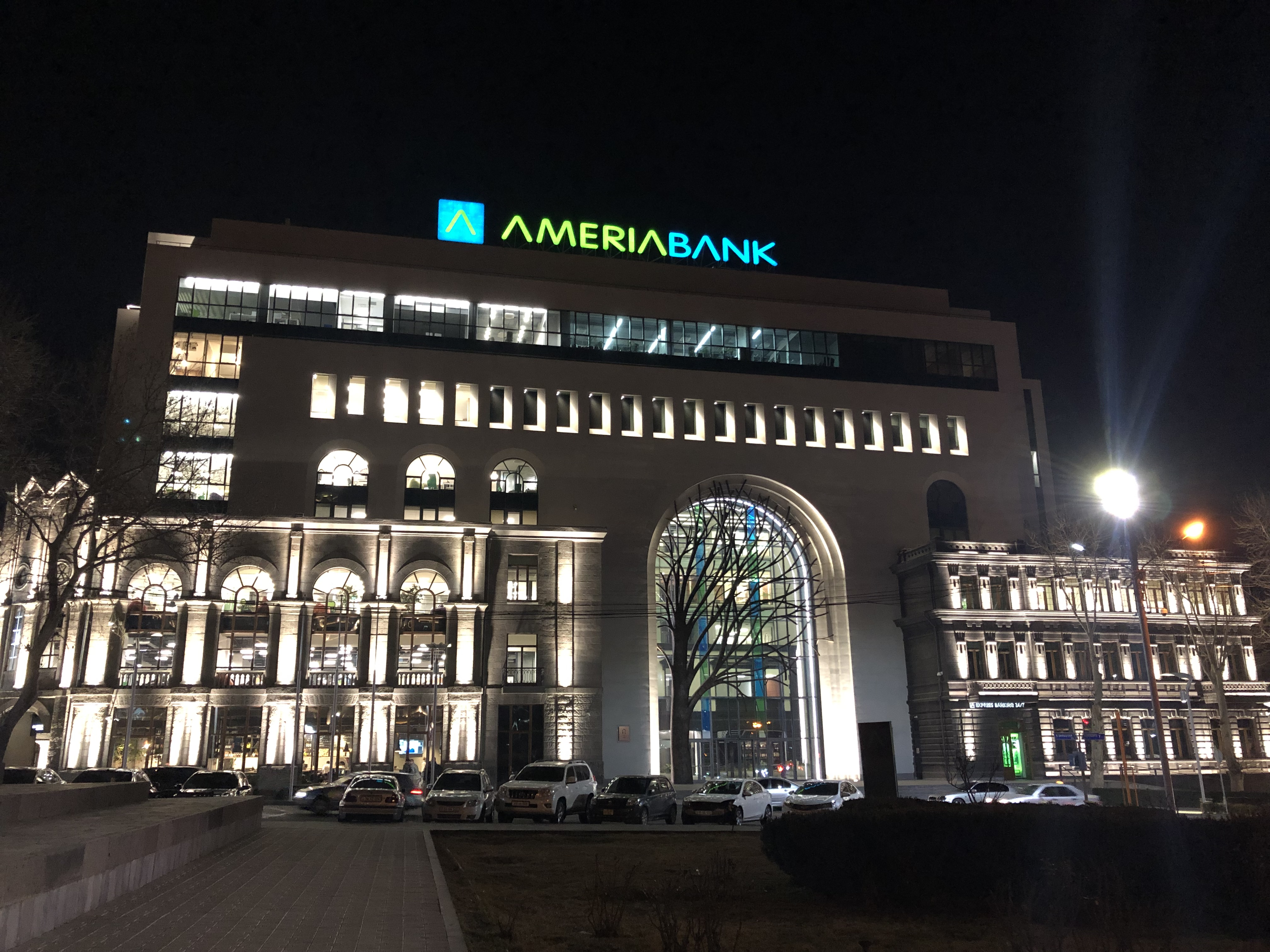 Kamar Business Center, Yerevan, Armenia